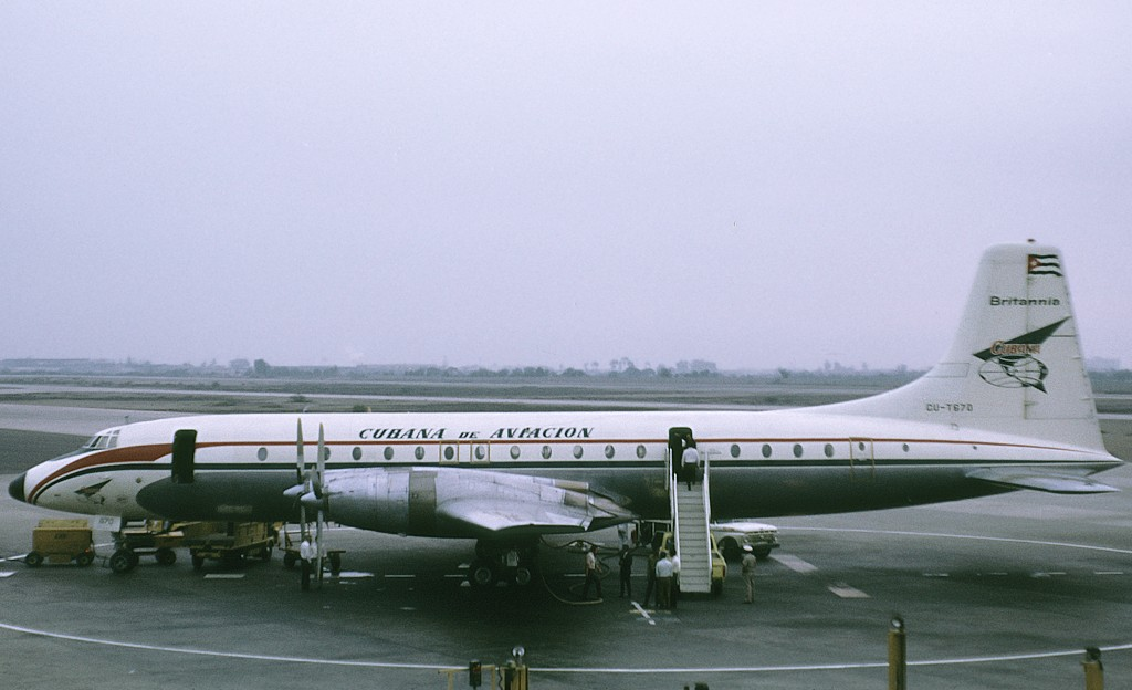 Bristol Britannia 318 CU-T670 of Cubana de Aviación at Lima Airport, Peru, in April 1972